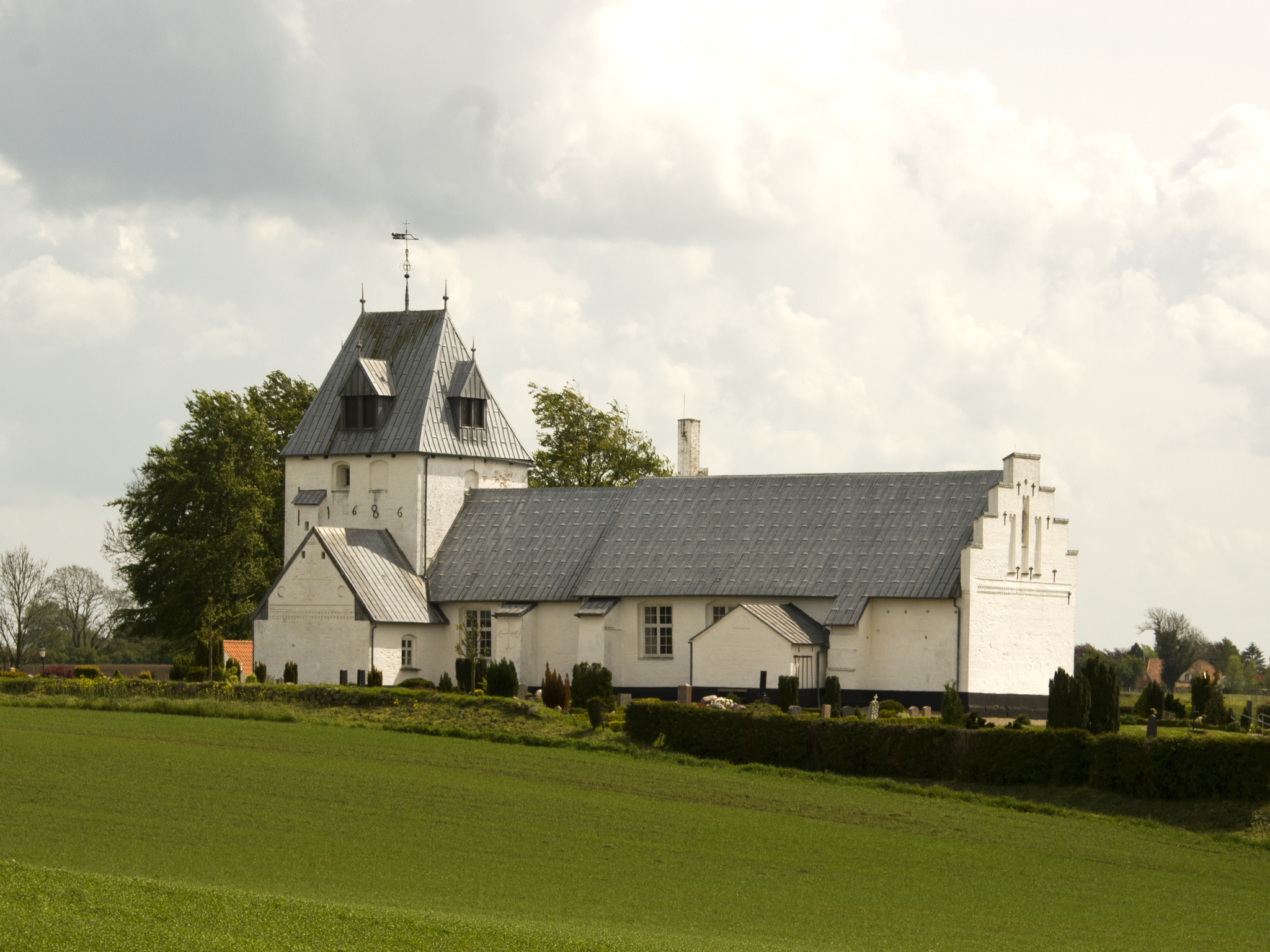 Halk church near Haderslev, Denmark, seen from north.